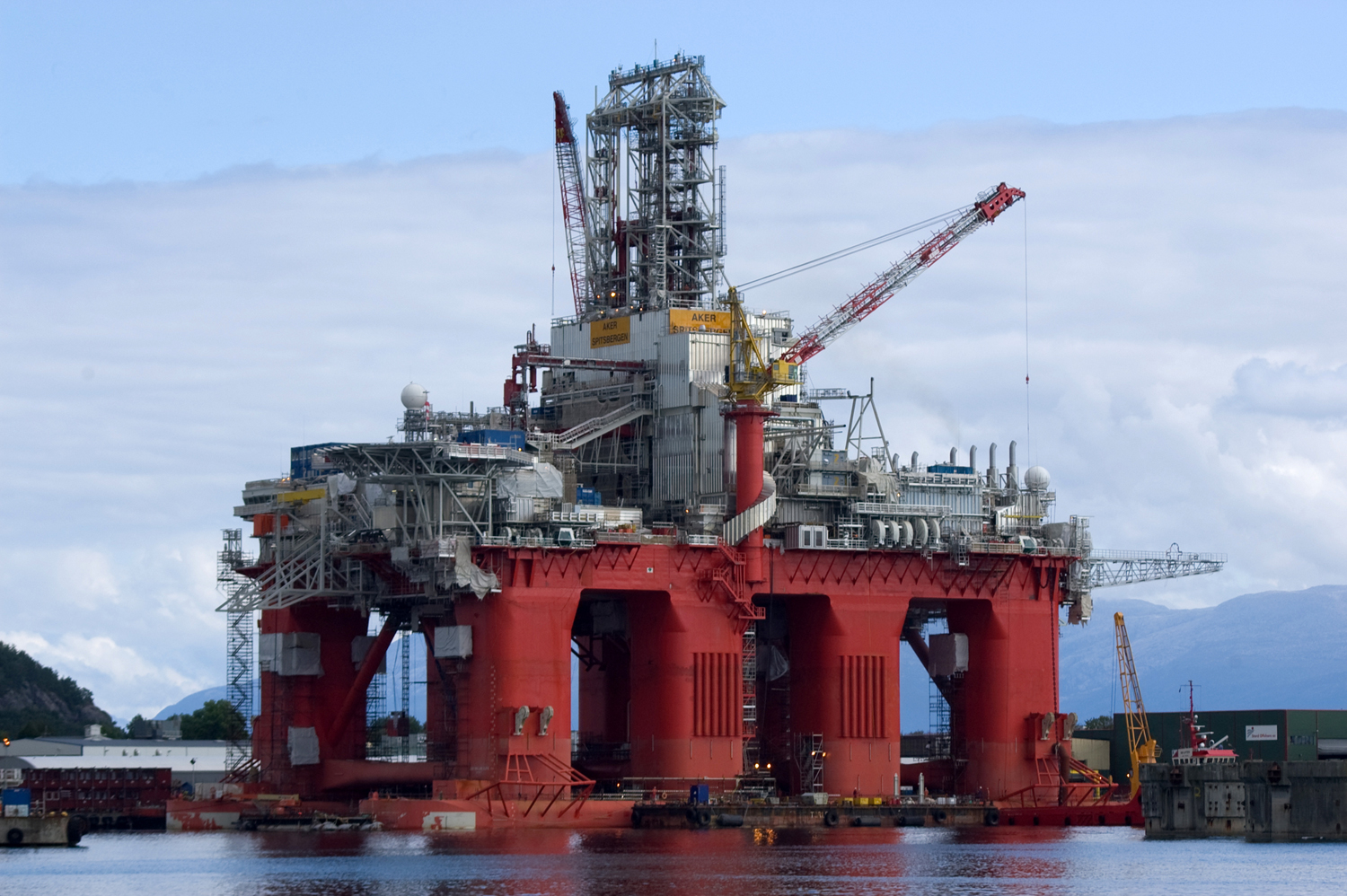 Plattform Aker Spitsbergen